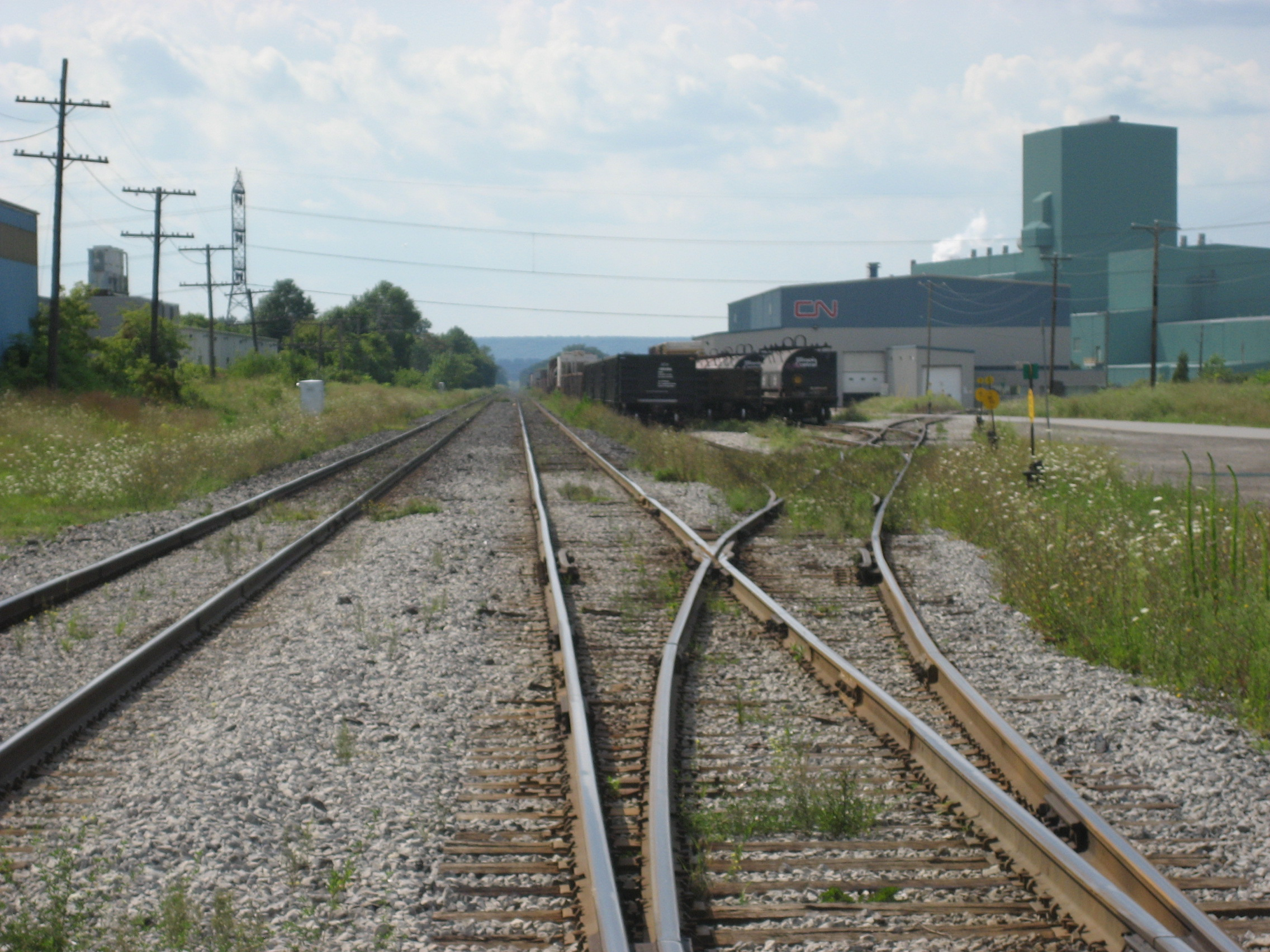 CN Railway tracks, Parkdale Avenue North, Hamilton, Canada.